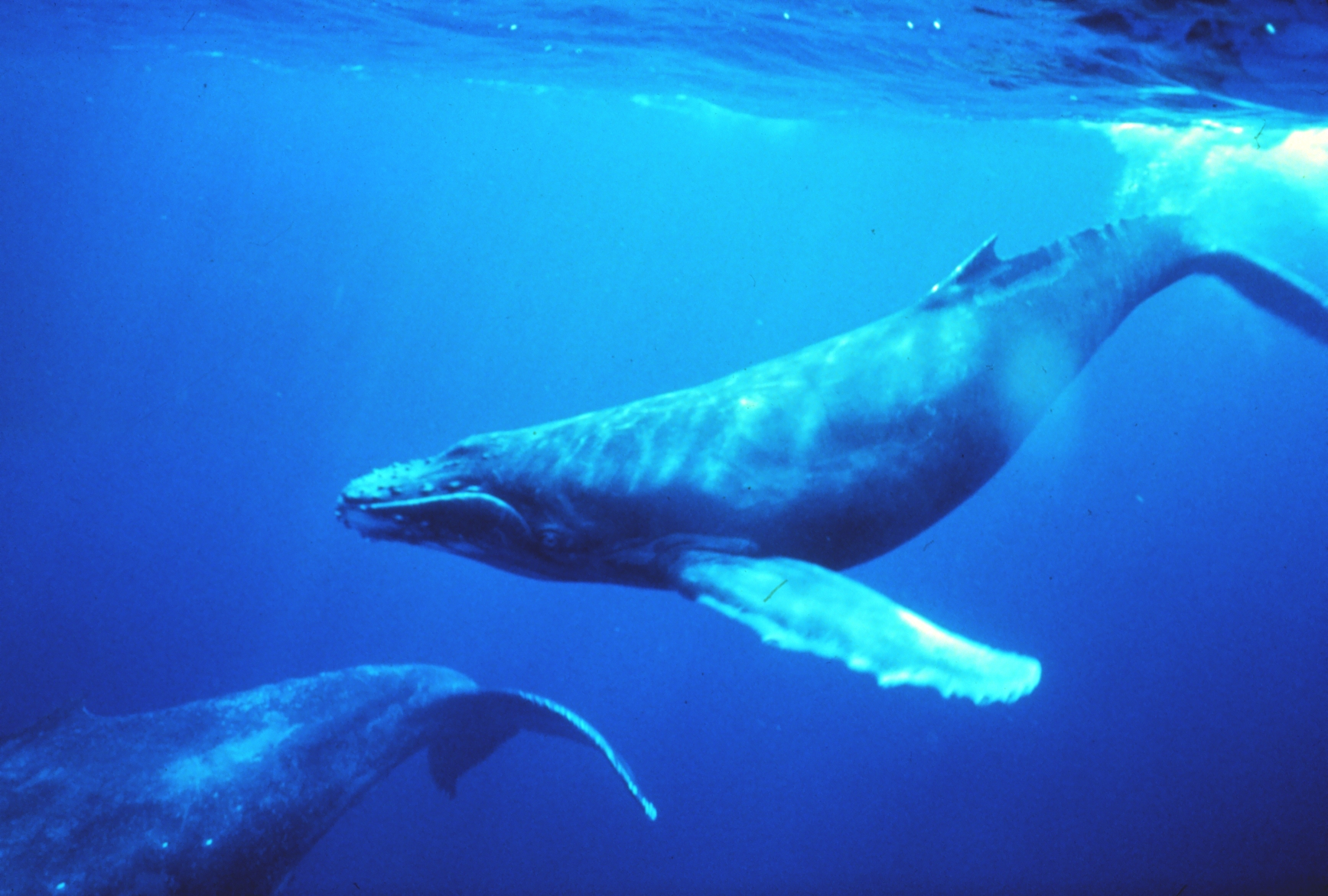 Humpback whales in the singing position. Humpback Whale NMS.